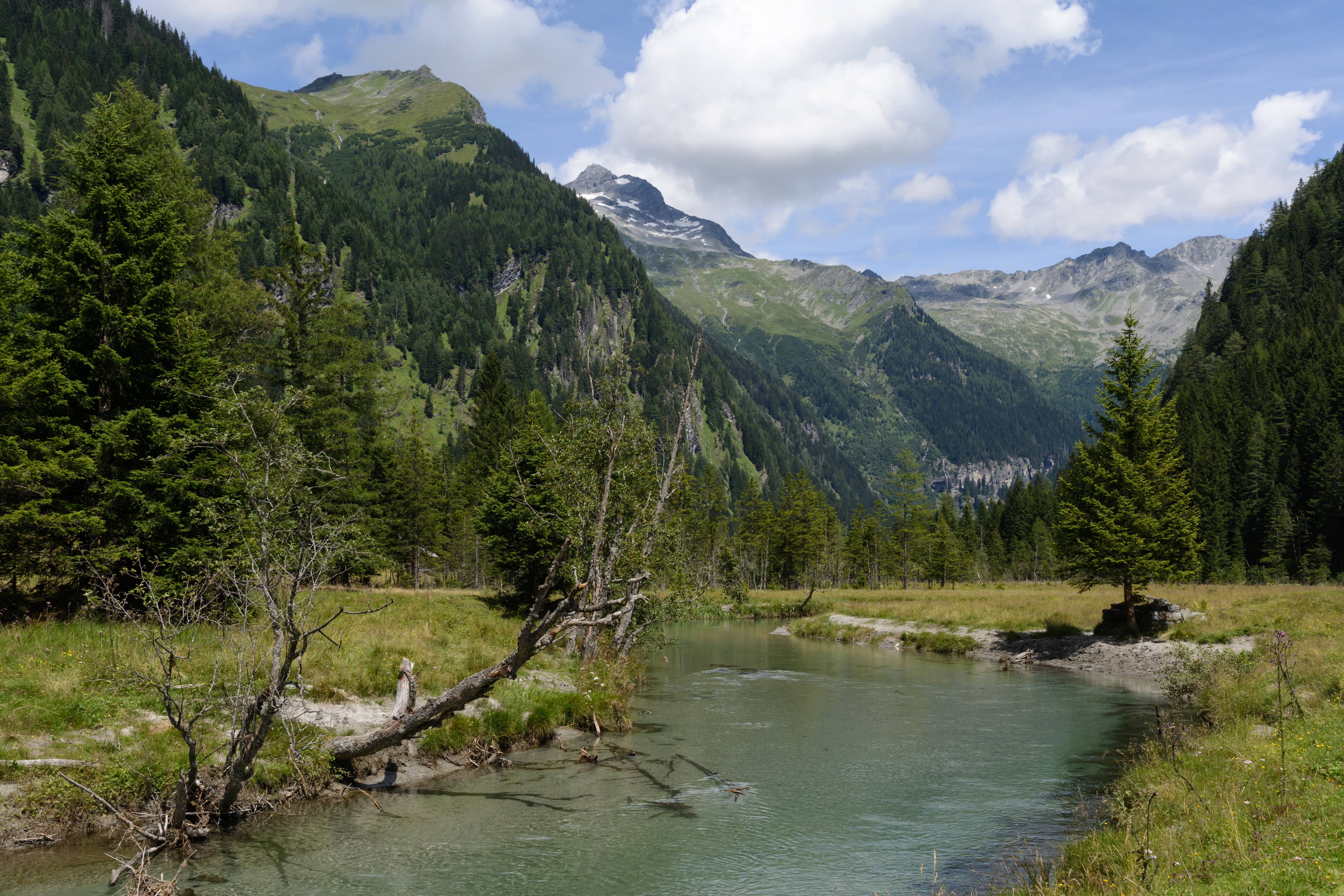 Seebach Valley and Ankogel (3,252 metres (10,669 ft)) in the High Tauern National Park near Mallnitz, Carinthia, Austria